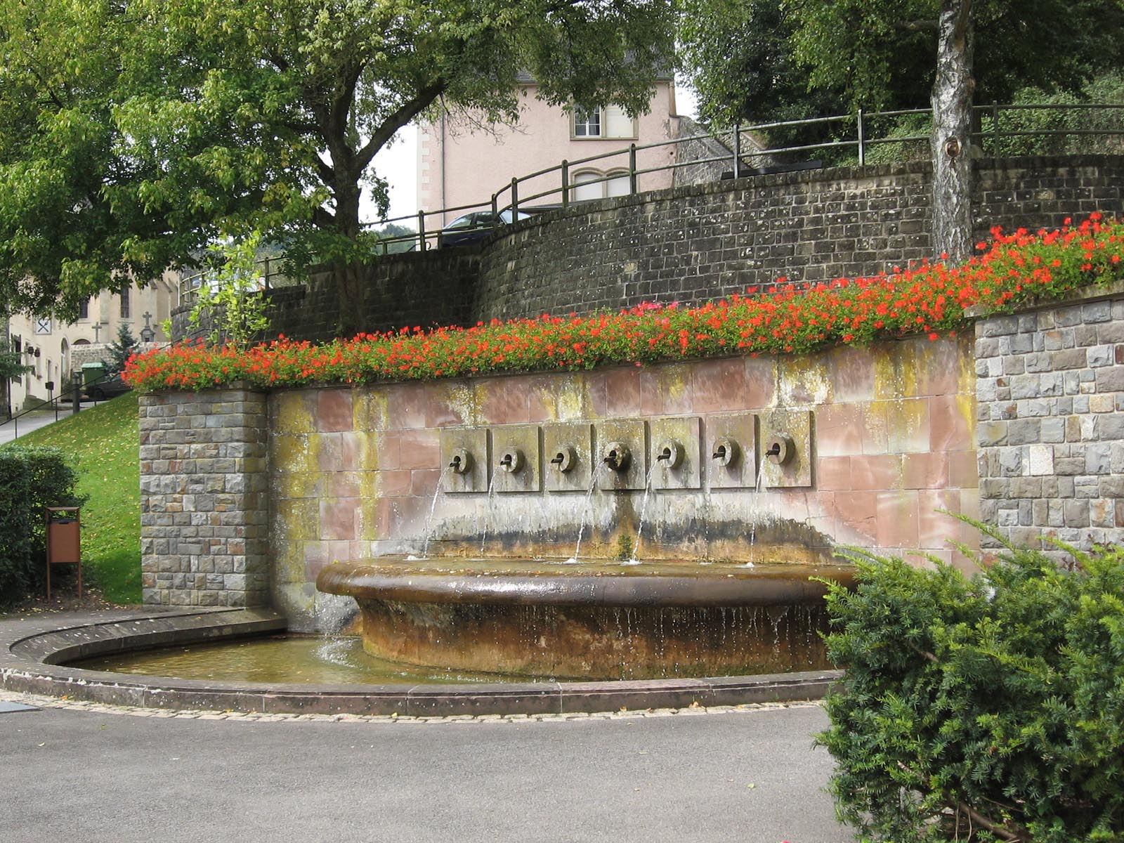 Septfontaines